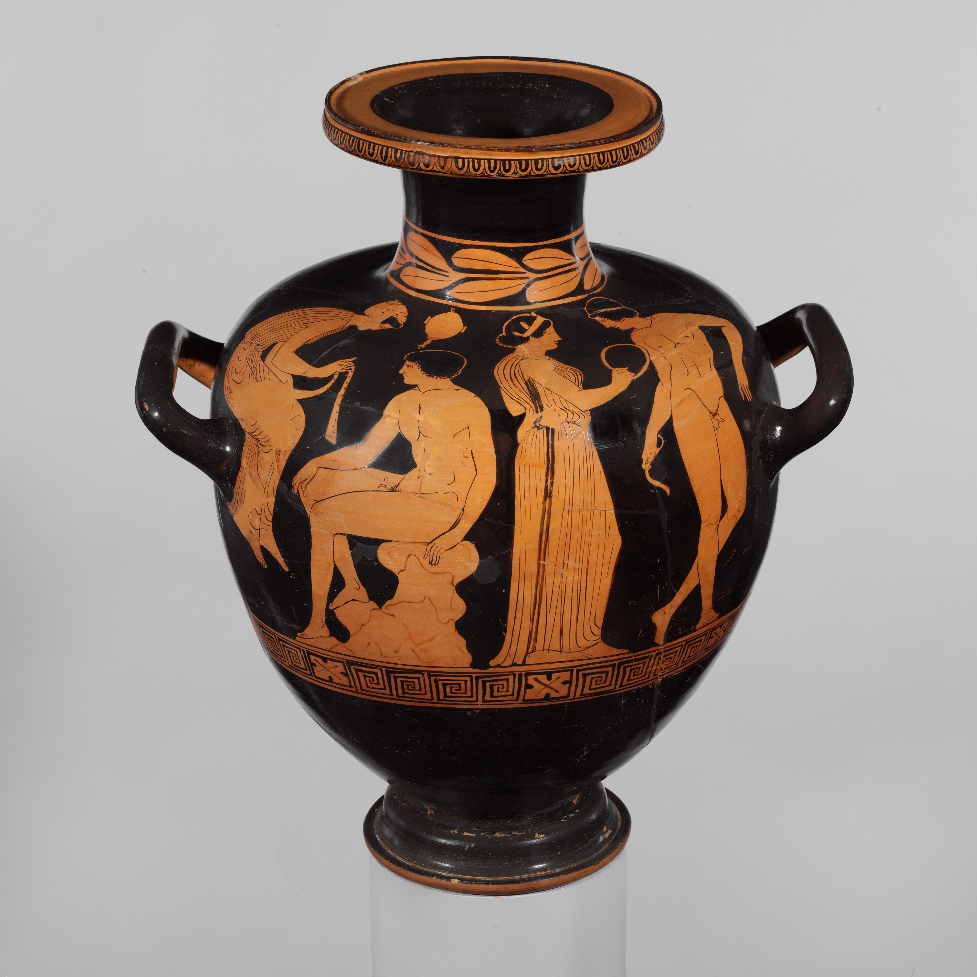 Greek, South Italian, Lucanian; Hydria; Vases